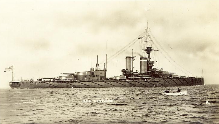 British battleship HMS Centurion.